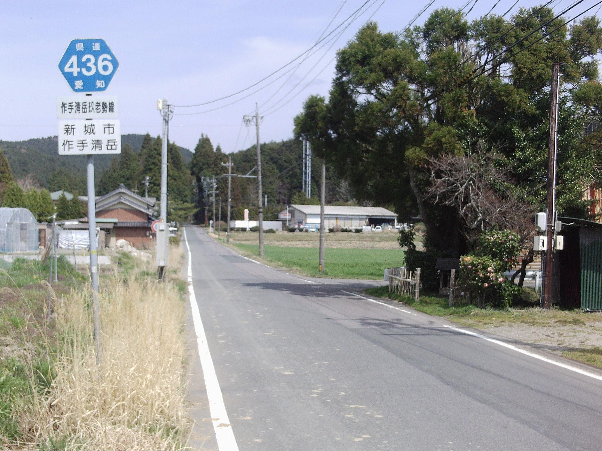 Aichi prefectural road No.436 in Tsukude Kiyooka, Shinshiro, Aichi.